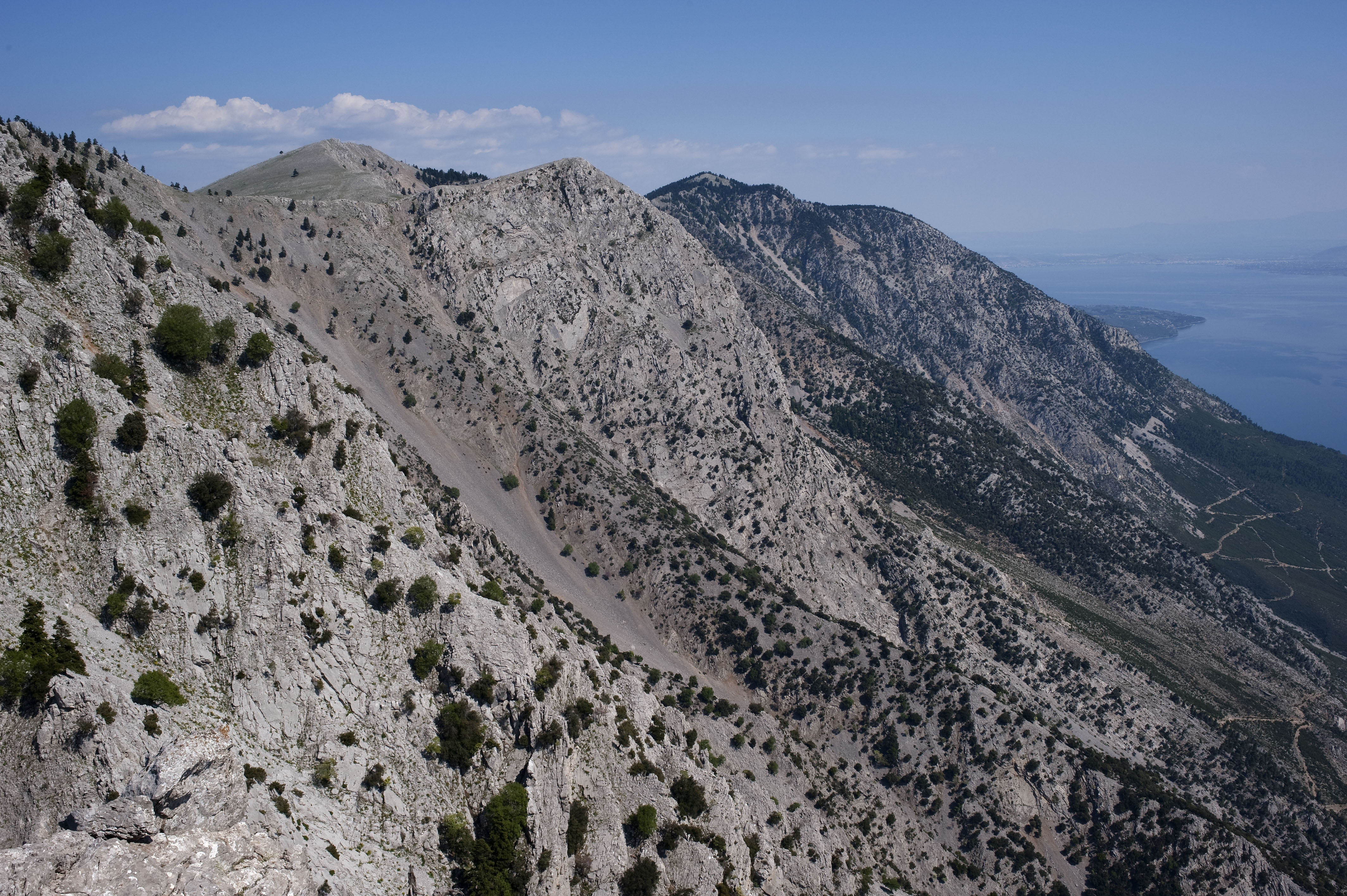 Kantili mountain, Evia island, Greece.